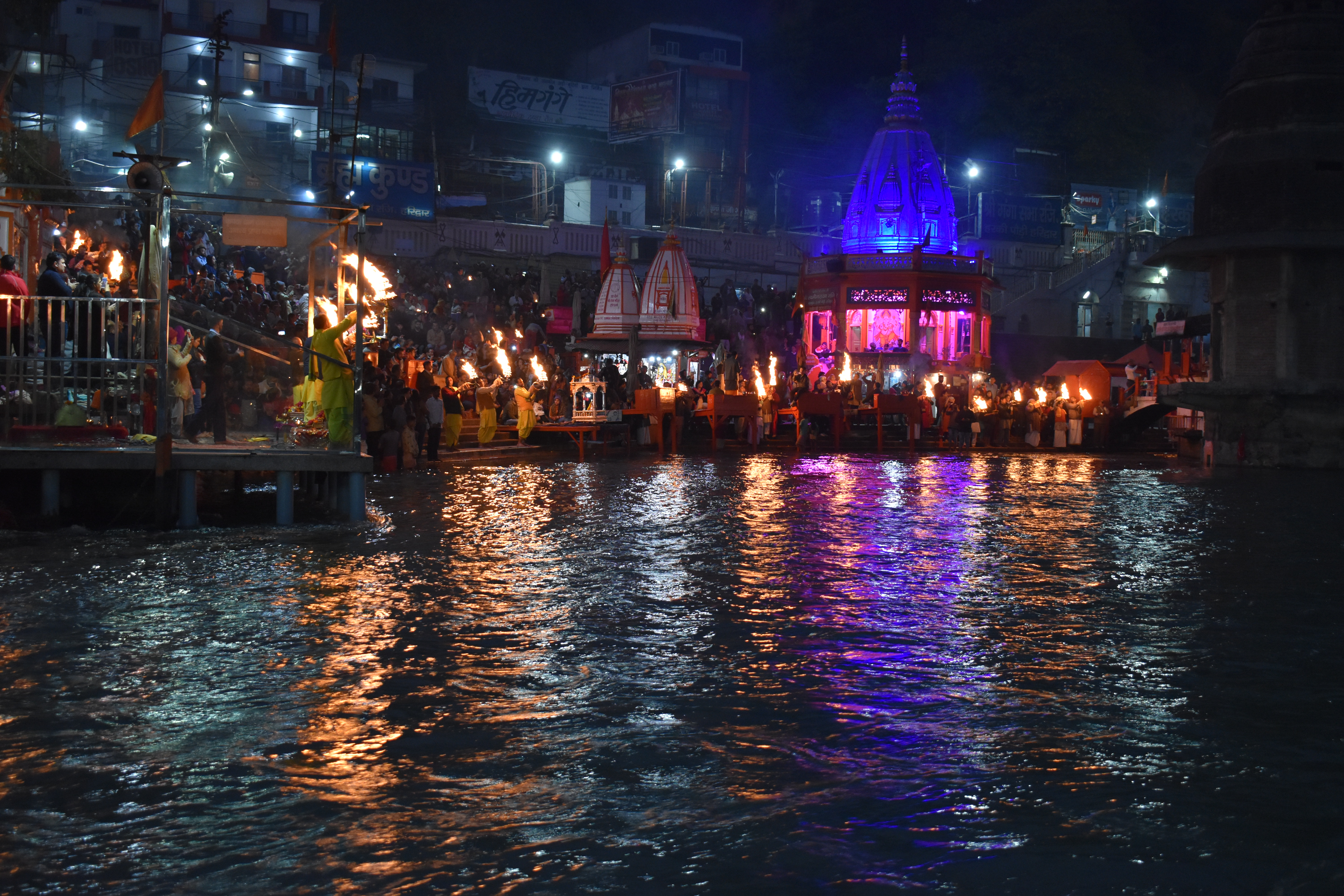 ganga aarti at har ki paudi haridwar